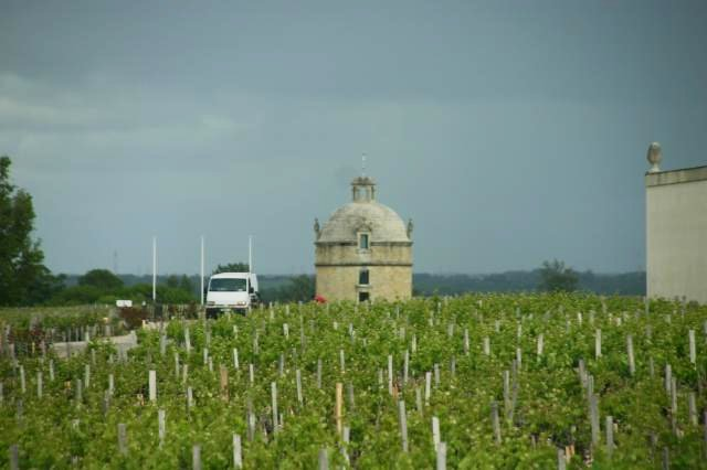 Tower at Chateau Latour